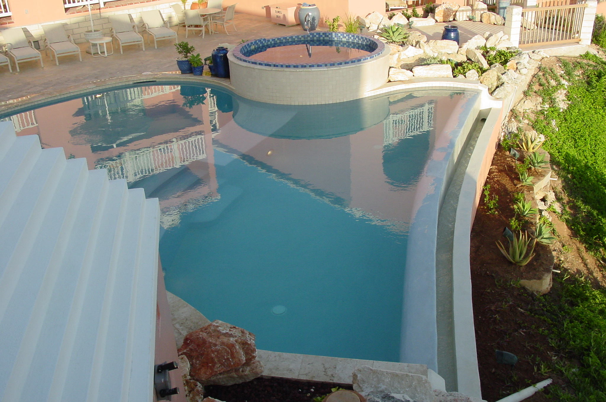 The Pool at The Reefs